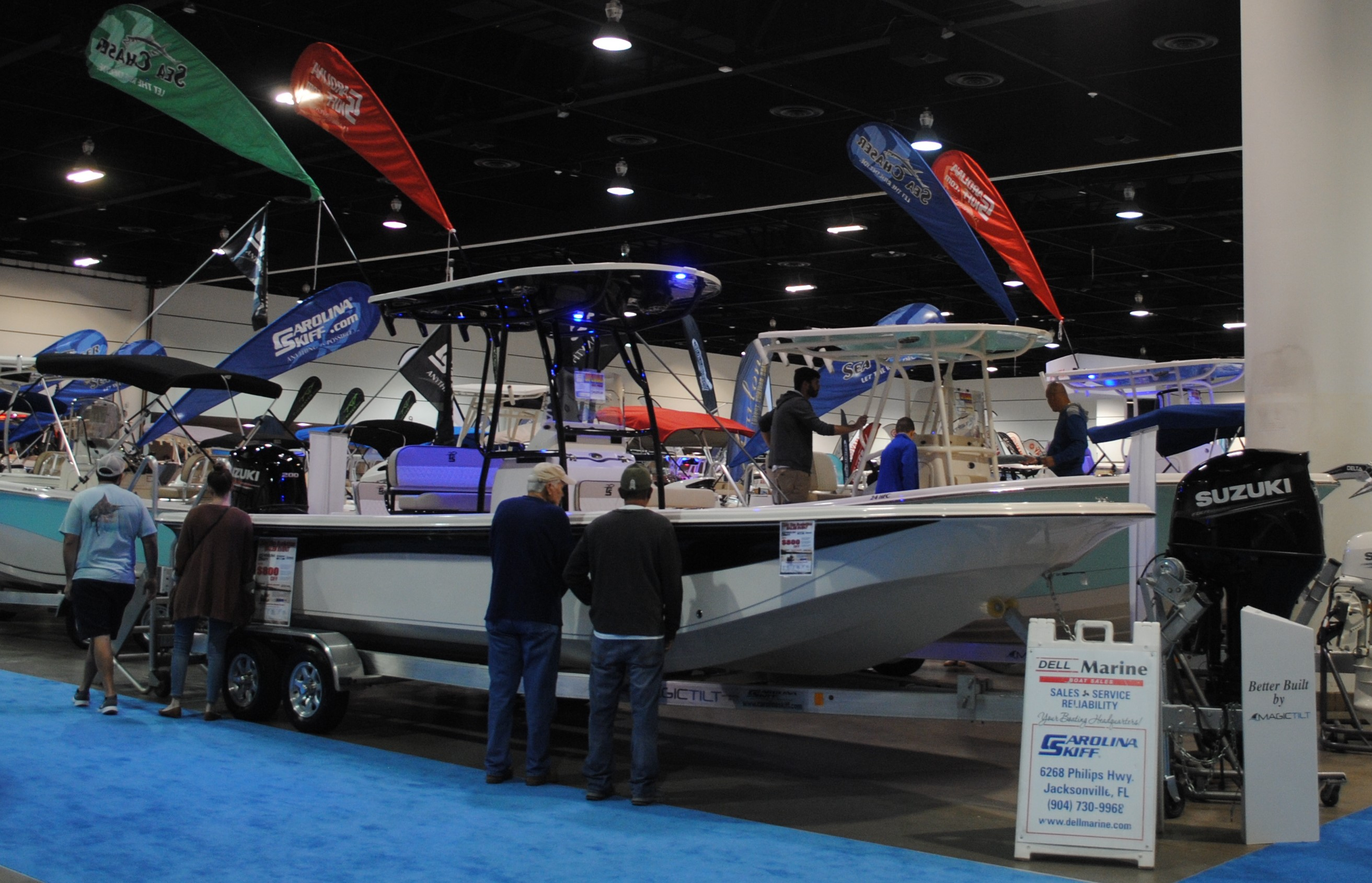 Jacksonville Boat Show 2020 featuring Dell Marine